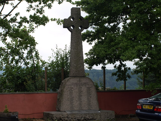 War Memorial On the car park in front of the Museum.